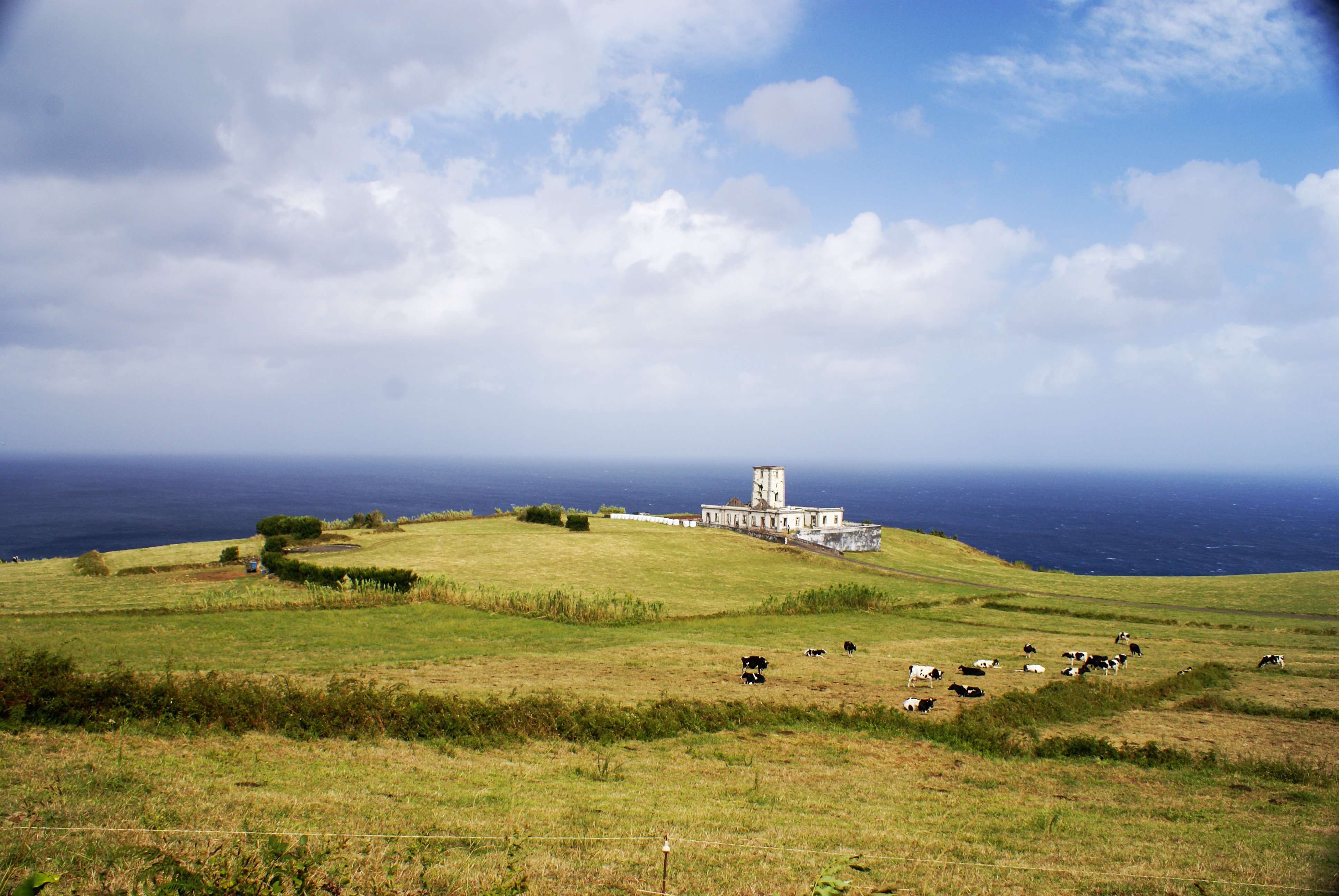 The ruins of the Ribeirinha Lighthouse, in the green fields of Atrás o Monte, destroyed by the 1998 Earthquake, Ribeirinha, Horta, Faial (Azores), Portugal